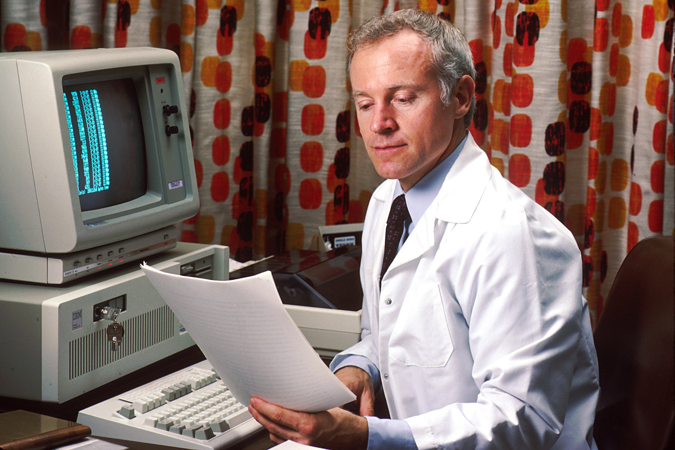 Title Doctor Reviewing PDQ Description Doctor sitting at his office desk accessing PDQ on his IBM computer. The Physicians Data Query was designed by the National Cancer Institute to help physicians obtain information about the most up-to-date protocols, physicians, and clinics treating cancer patients. Topics/Categories People -- Health Professional Type Color, Photo Source National Cancer Institute